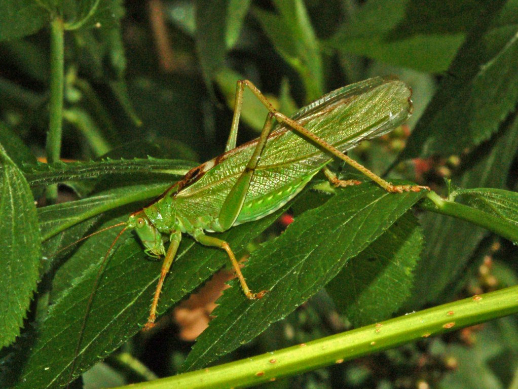 Tettigolia viridissima, male